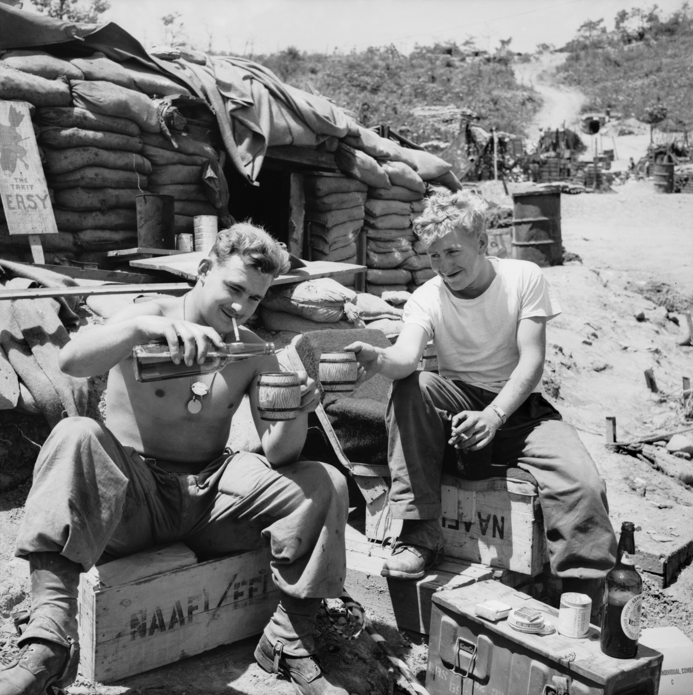 Two unidentified soldiers enjoy some recreation time at a sandbagged Navy Army Air Force Institute (NAAFI) ID Number: HOBJ3241 Maker: Hobson, Phillip Oliver Place made: Korea Rights Info: No known copyright restrictions. This photograph is from the Australian War Memorial's collection Persistent URL